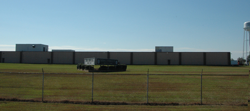 National Spinning, Beulaville Location. Lyman Road.